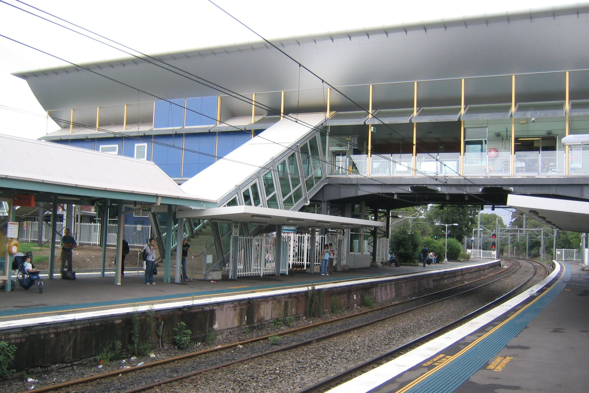 This is a picture of West Ryde railway station in Sydney, Australia. It was taken from the westernmost platform looking towards the city. Category:Images of Sydney